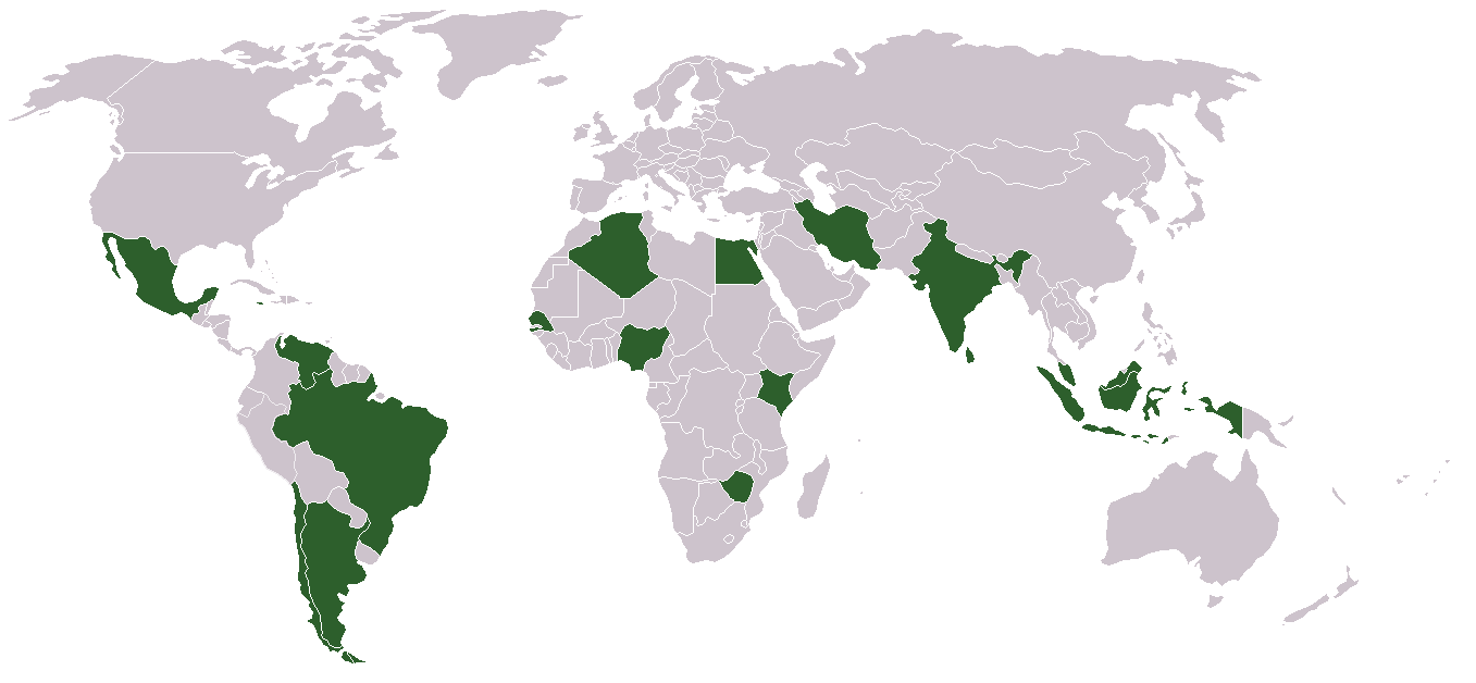 All the countries that are members of the G-15. Algeria Argentina Brazil Chile Egypt India Indonesia Islamic Republic of Iran Jamaica Kenya Malaysia Mexico Nigeria Senegal Sri Lanka Bolivarian Republic of Venezuela Zimbabwe